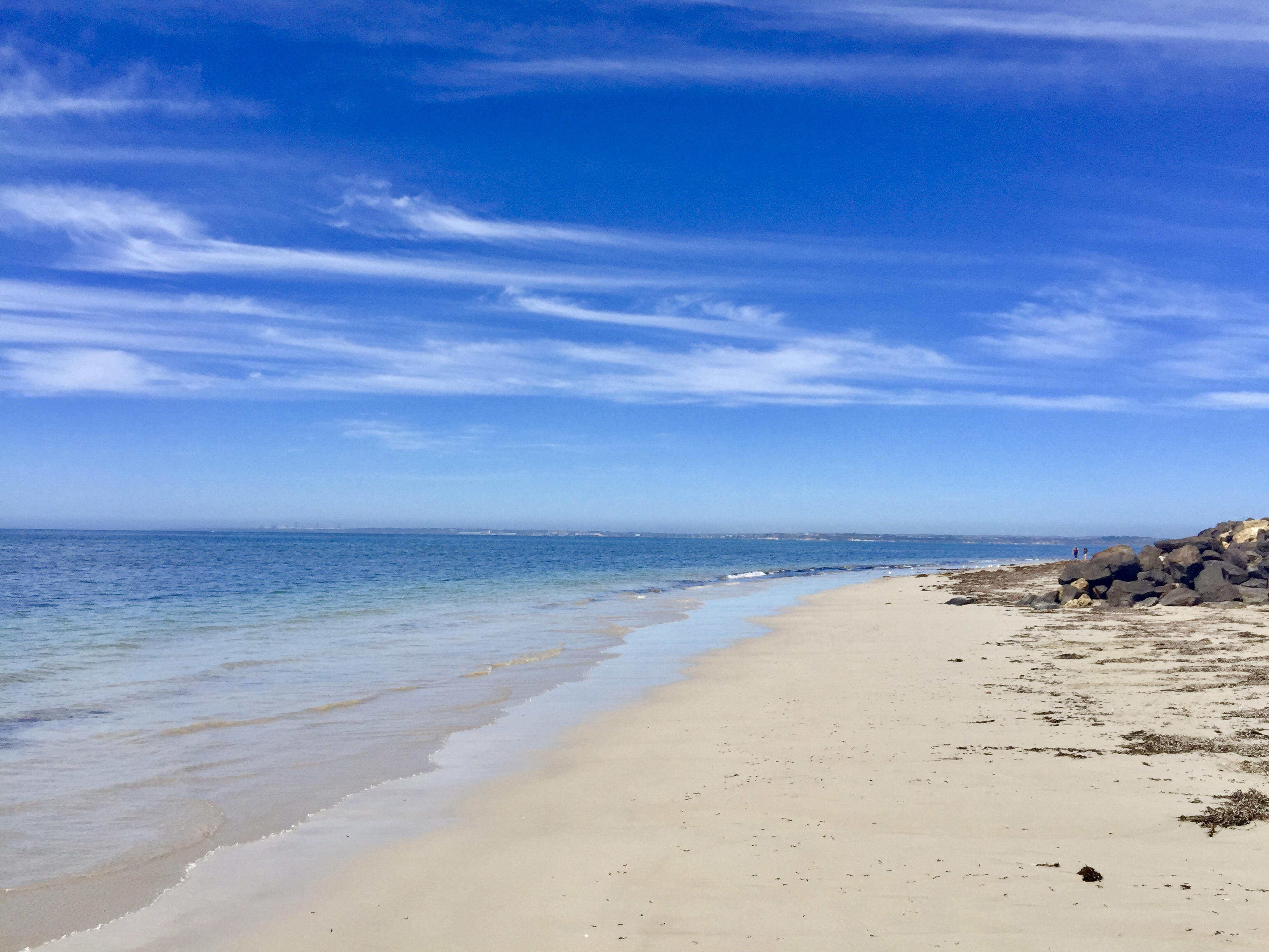 The beach at Allestree which has been severely damaged by the construction of the Port of Portland. Glenelg Shire were committed to restoring this pristine beach but have now approved an abalone farm instead.